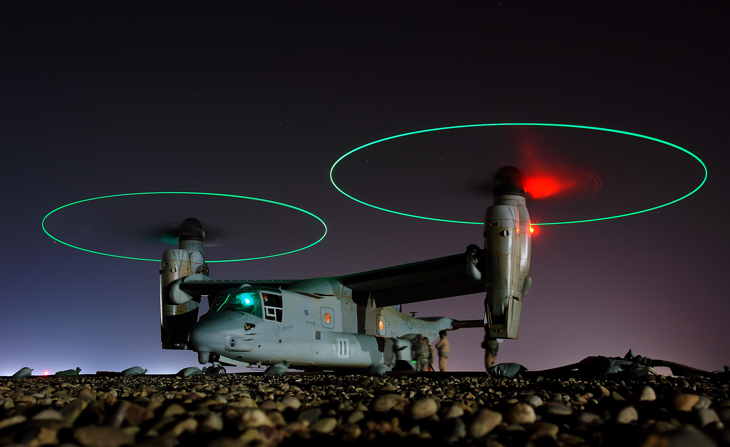 Crew members refuel an A V-22 Osprey before a night mission in central Iraq.